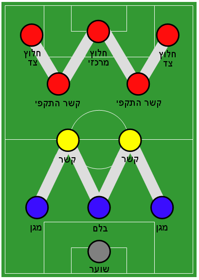 Football_Formation-WM